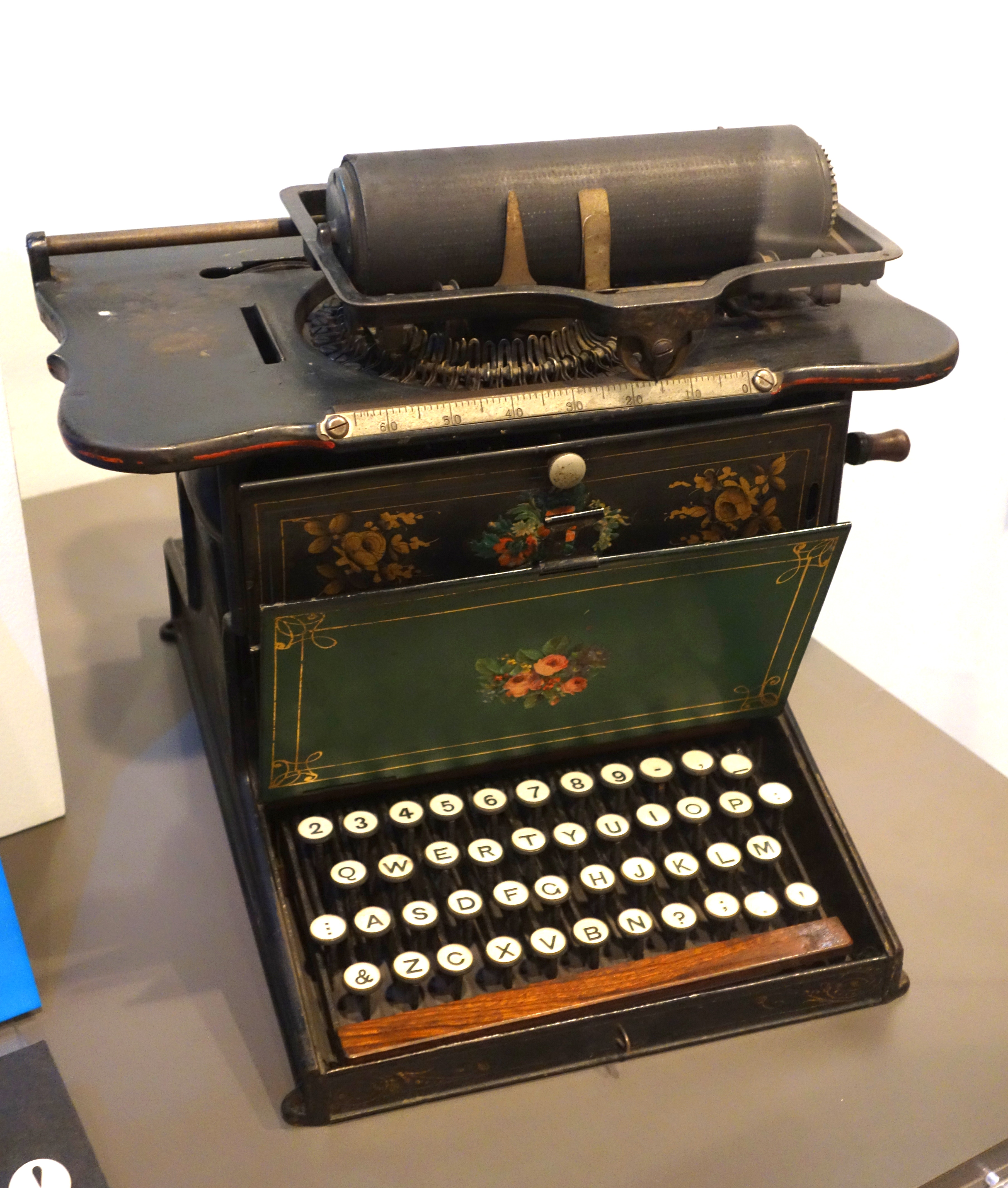 Exhibit in the Wisconsin Historical Museum, Madison, Wisconsin, USA. This item is old enough so that it is in the public domain.